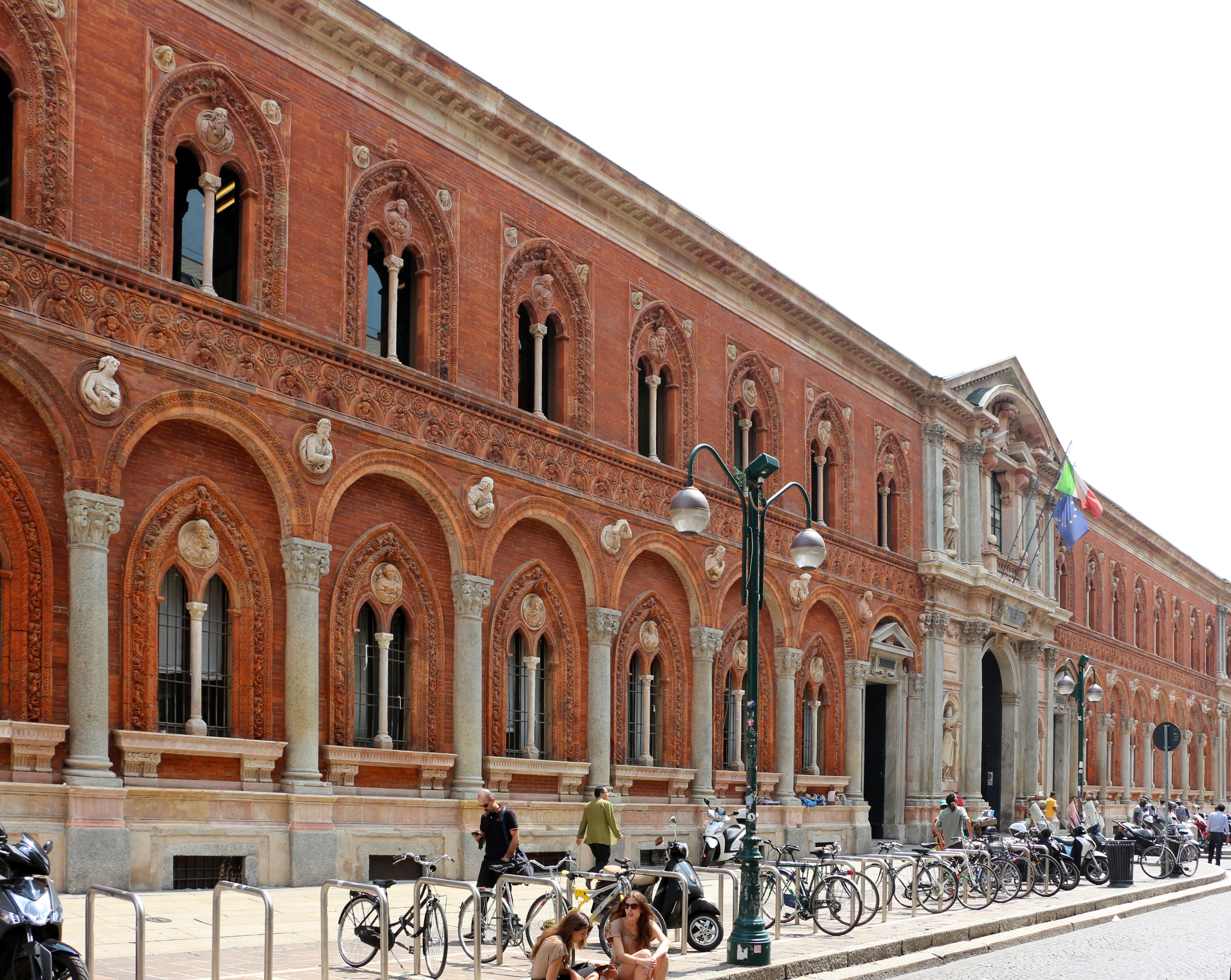 Università Statale (Milan)